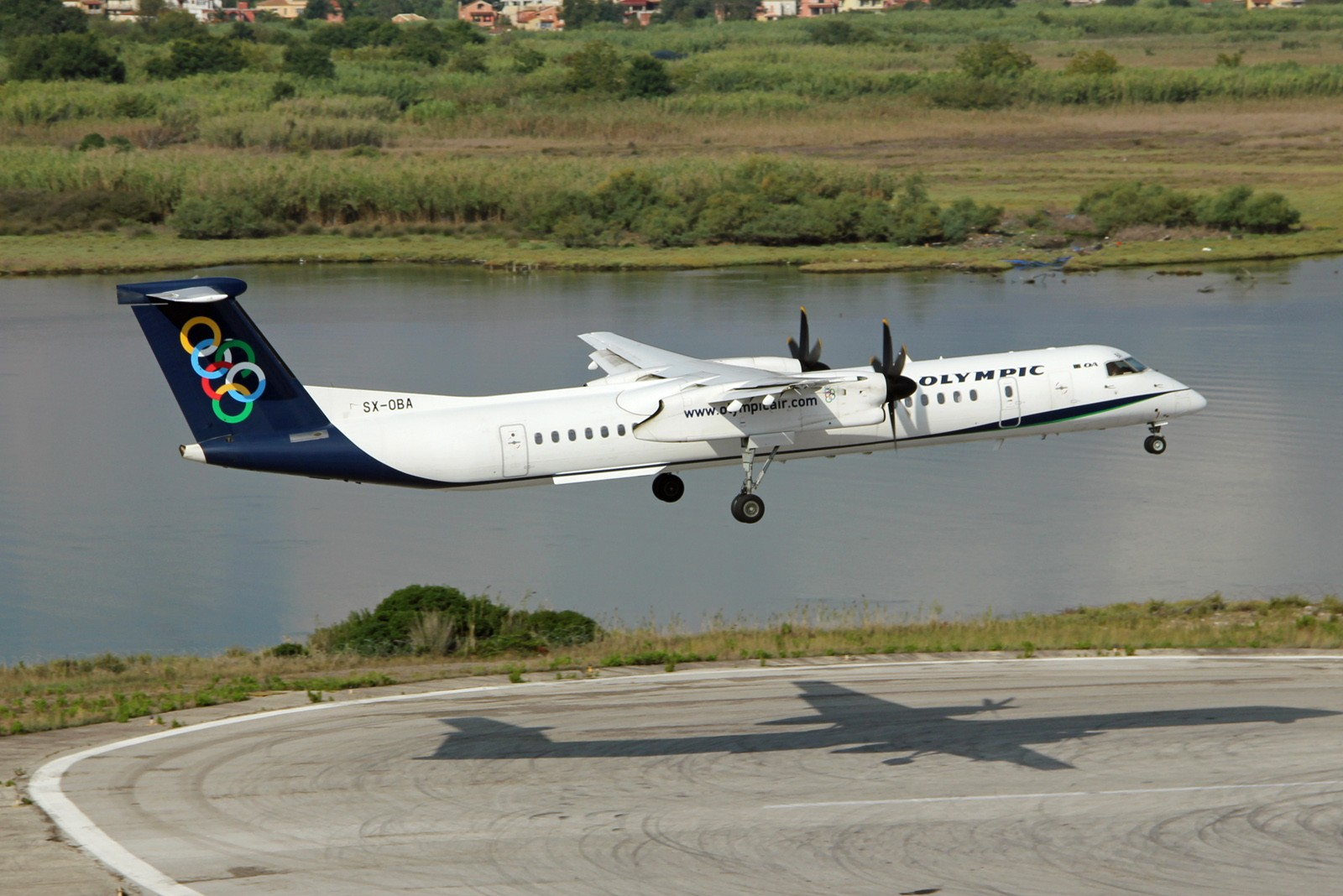 Olympic Air Dash 8-Q400 landing at Corfu International Airport